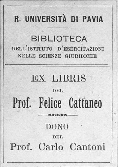 Ex libris from Felice Cattaneo, book donated by Carlo Cantoni